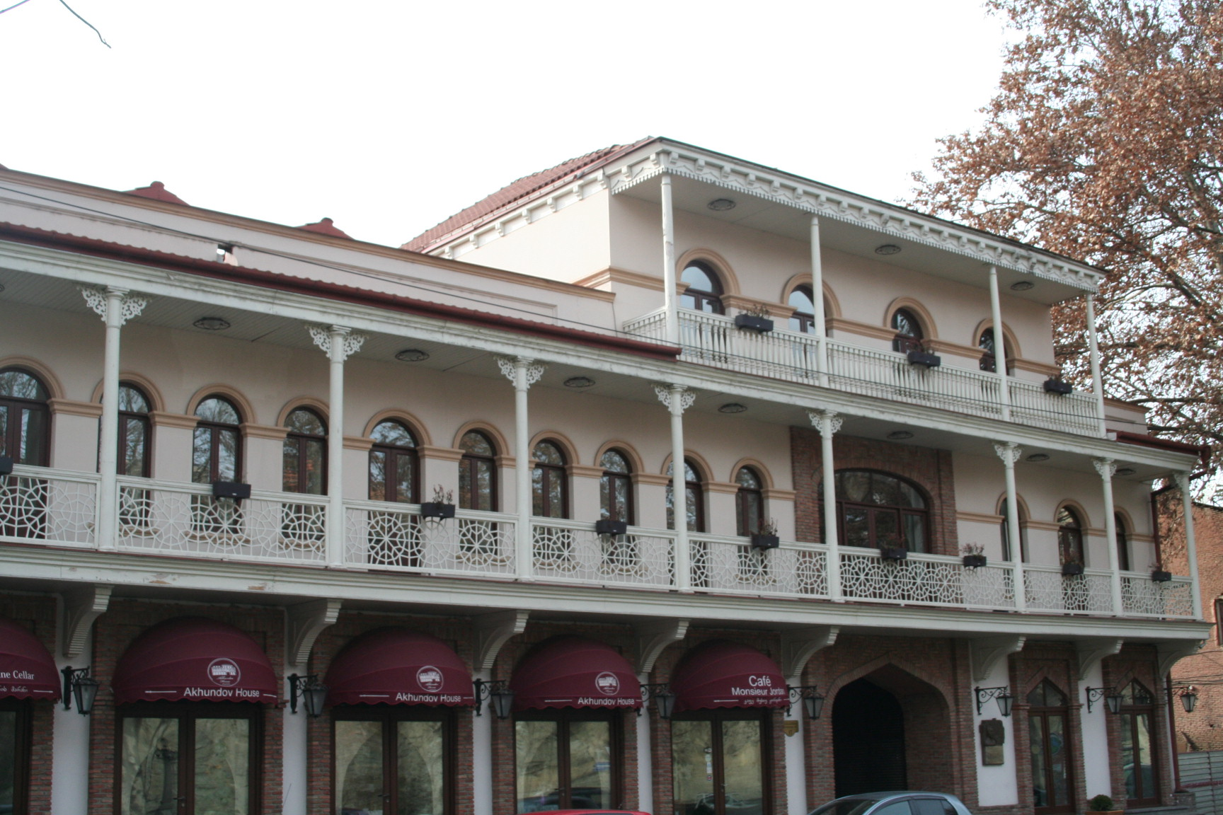 Akhundov House - Museum of Azerbaijani Culture in Tbilisi. Akhundov lived in this house.